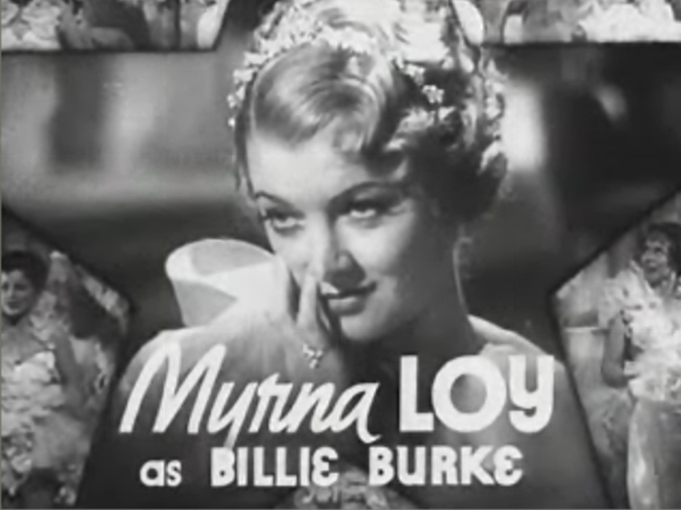 Cropped screenshot of Myrna Loy as Billie Burke from the trailer for The Great Ziegfeld